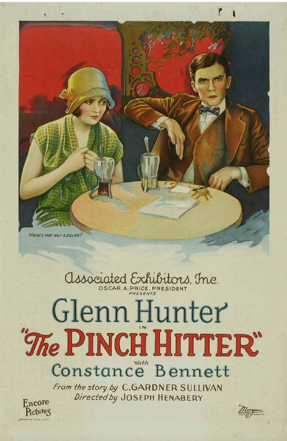 Poster for the American film The Pinch Hitter (1925).